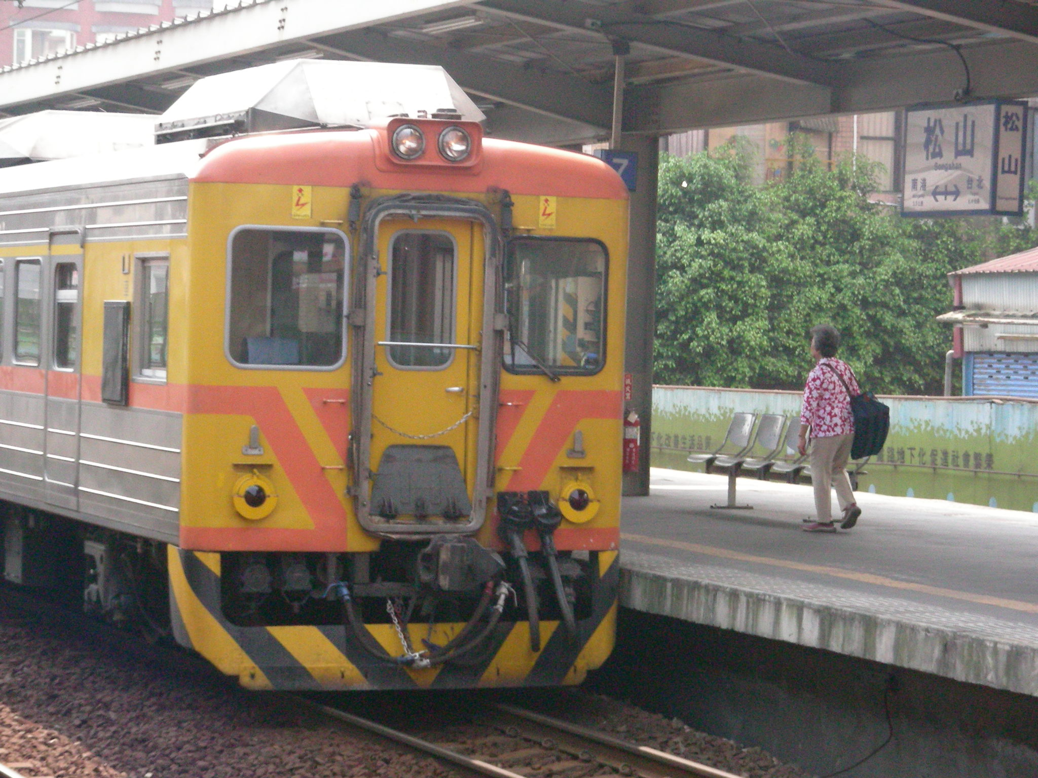 Taiwan Railway Administration Tzu-Chiang Express DR3000 Diesel multiple unit @ Songshan Station